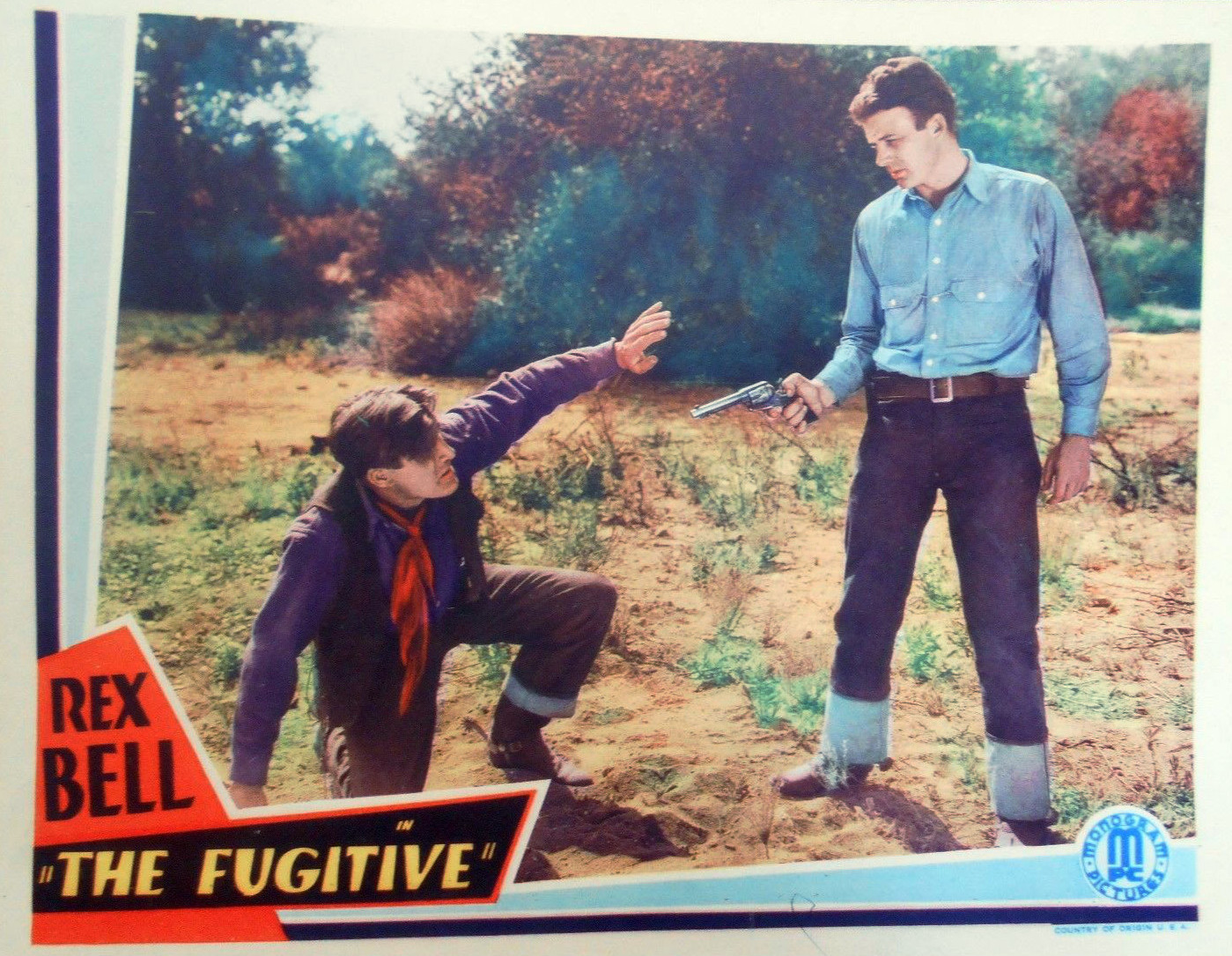 Lobby card for the American western film The Fugitive (1933) with Bob Kortman and Rex Bell.